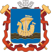 Chusovoi (Perm krai), coat of arms